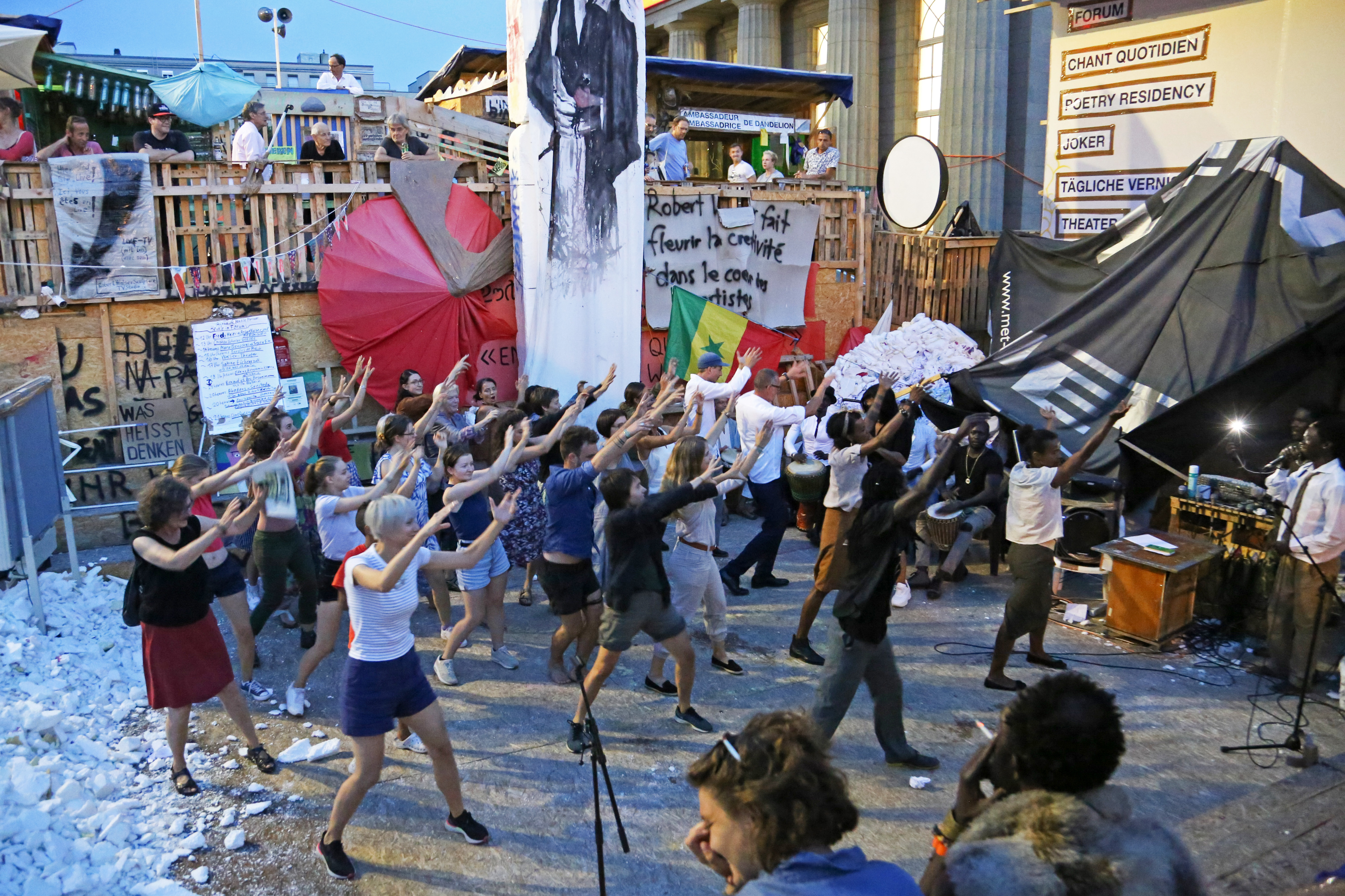 Thomas Hirschhorn, "Robert Walser-Sculpture", 2019 Place de la Gare, Biel/Bienne, Switzerland